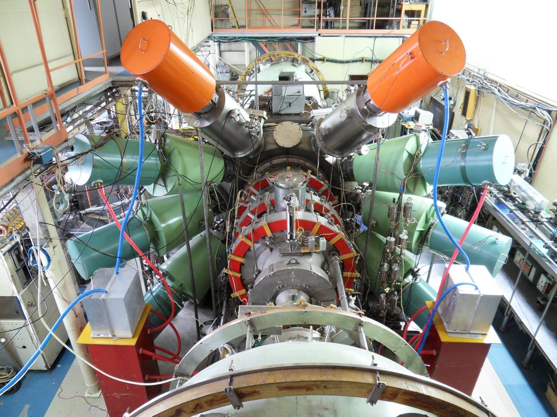 This shows the Gas Dynamic Trap, pictured from overhead.